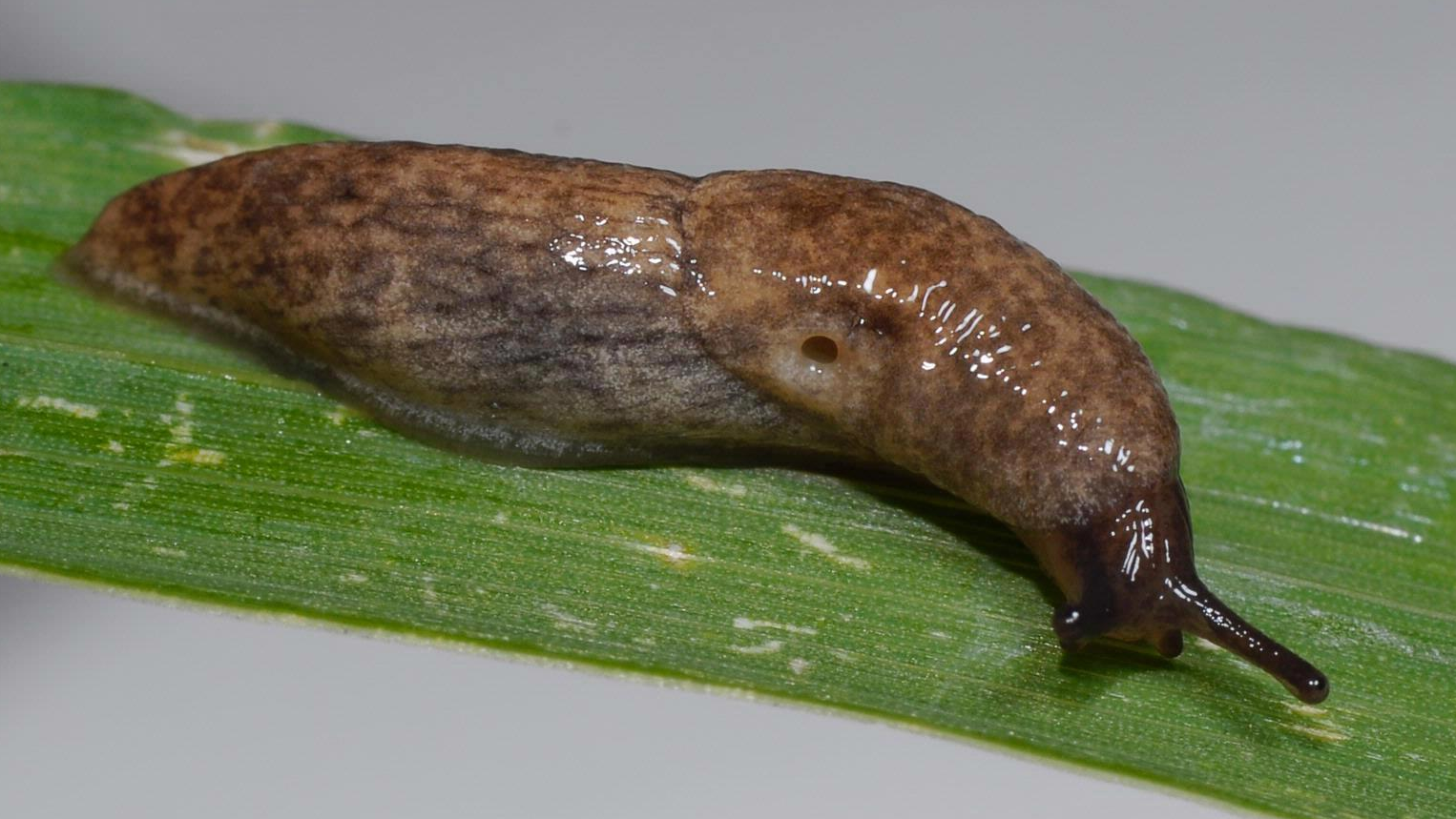 Deroceras reticulatum, United States: Colorado, Lakewood